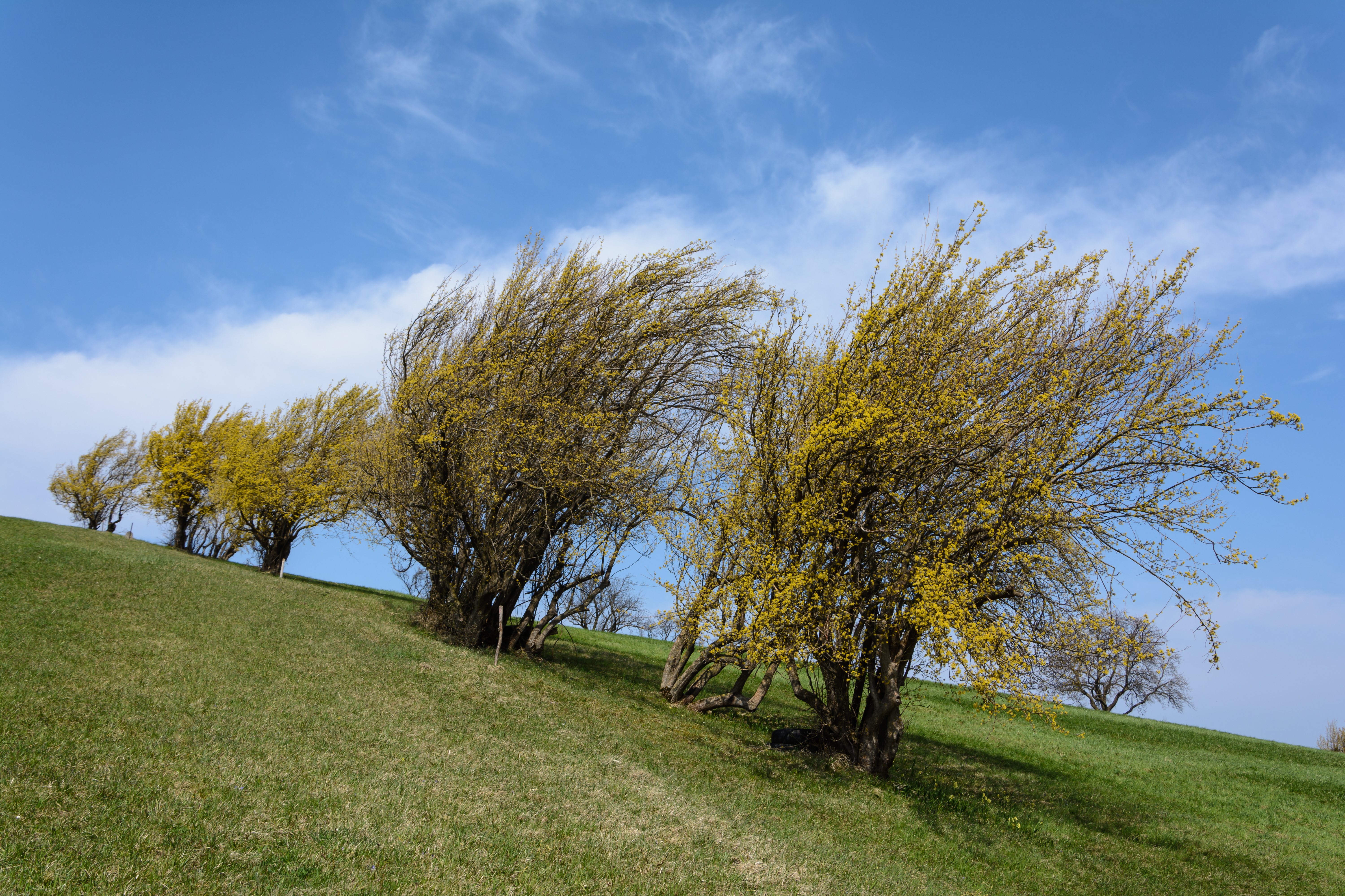 Flowering Cornus mas on Hegerberg mountain near Kasten, Lower Austria